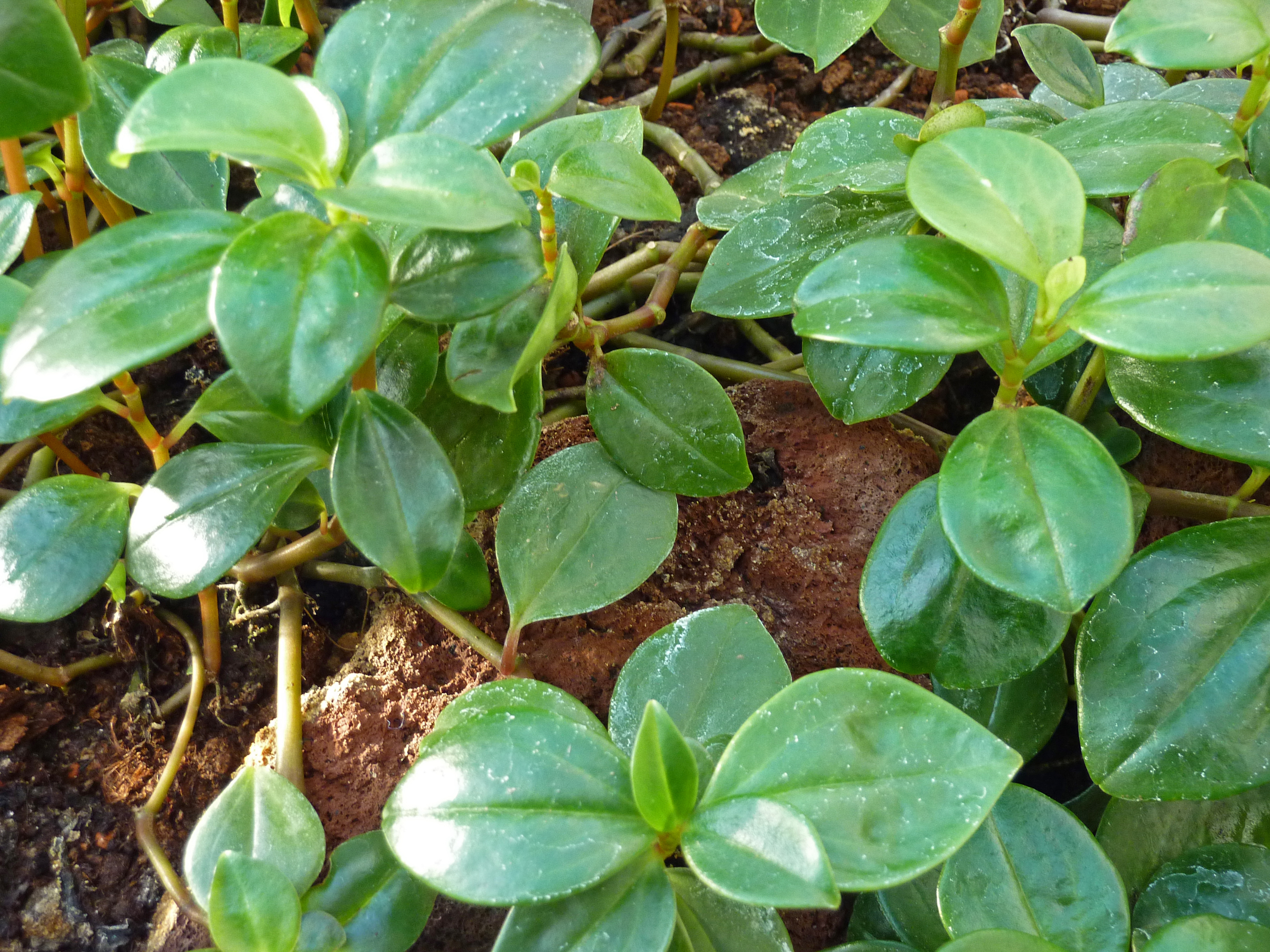 Peperomia glabella in the Botanical Garden, Berlin.